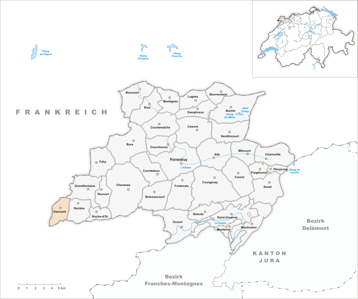 Municipality Damvant Artist: Tschubby